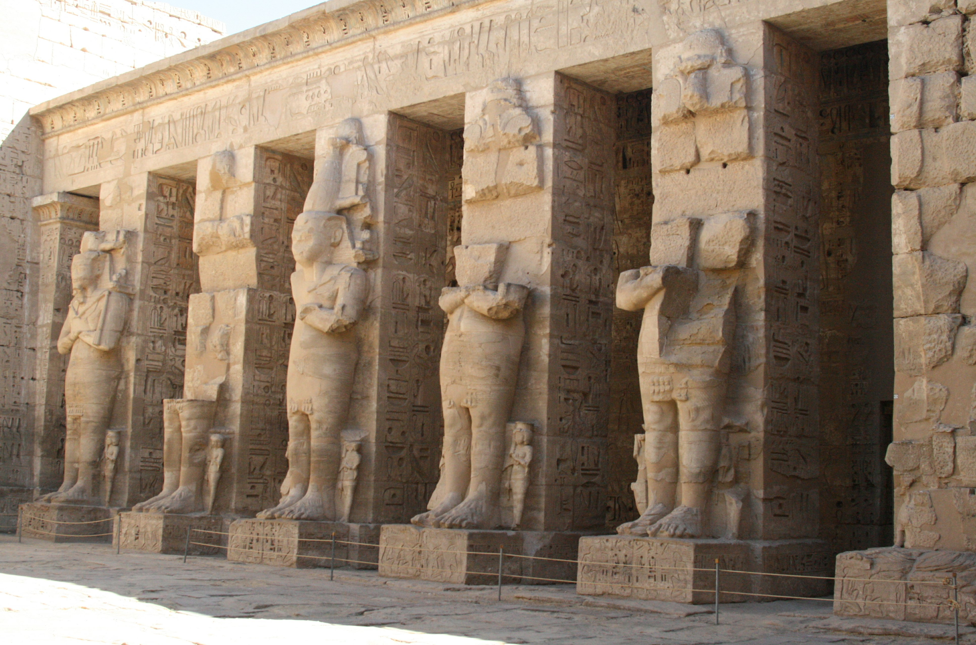 Medinet HAbu - Mortuary Temple of RAmeses III